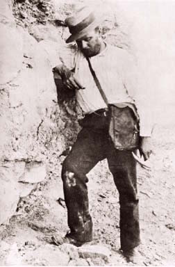 Willison in 1891. From Shor, p. 48